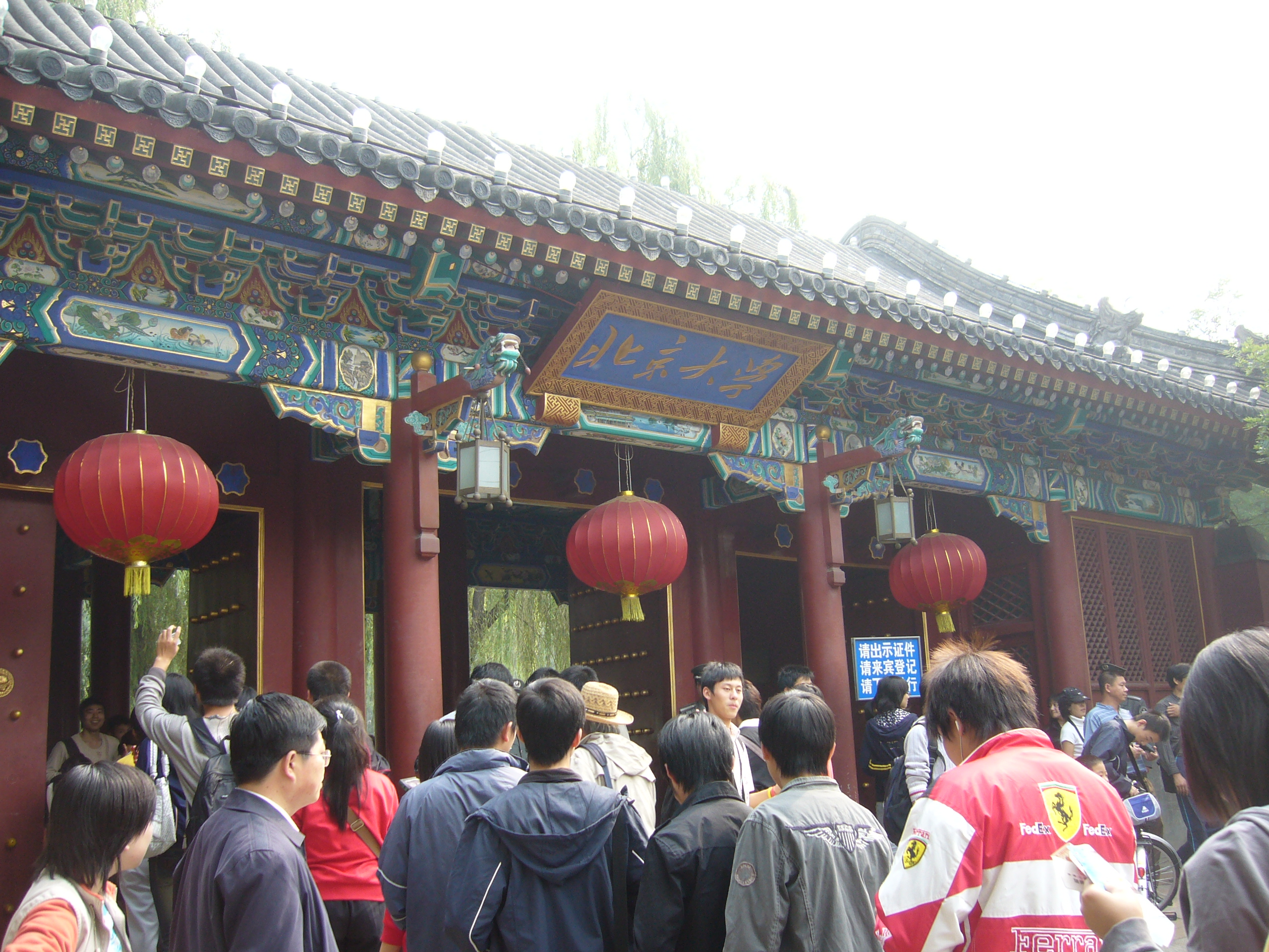 Beijing University